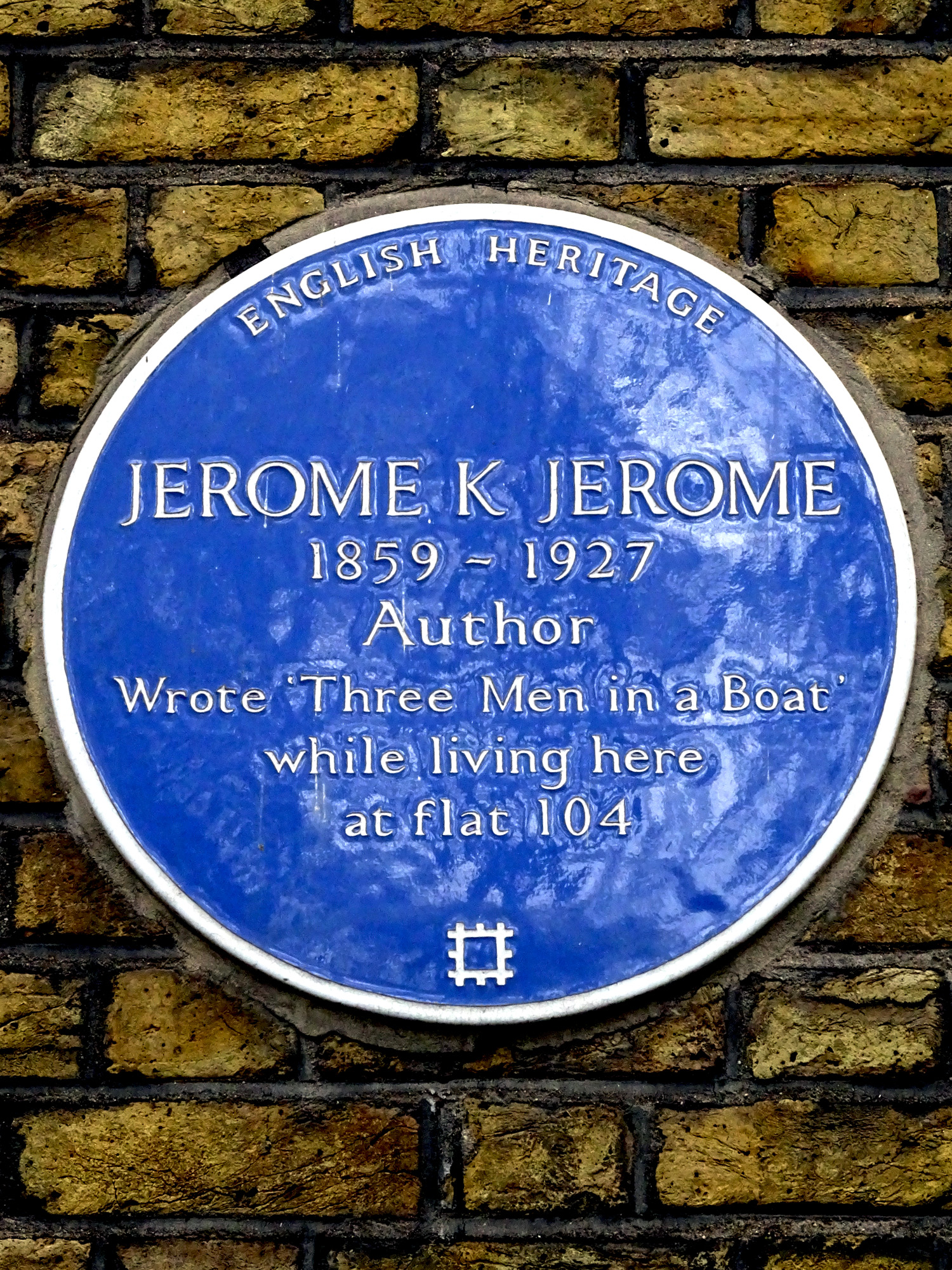 Blue plaque erected in 1989 by English Heritage at 91-104 Chelsea Gardens, Chelsea Bridge Road, Chelsea, London SW1W 8RQ, Royal Borough of Kensington and Chelsea